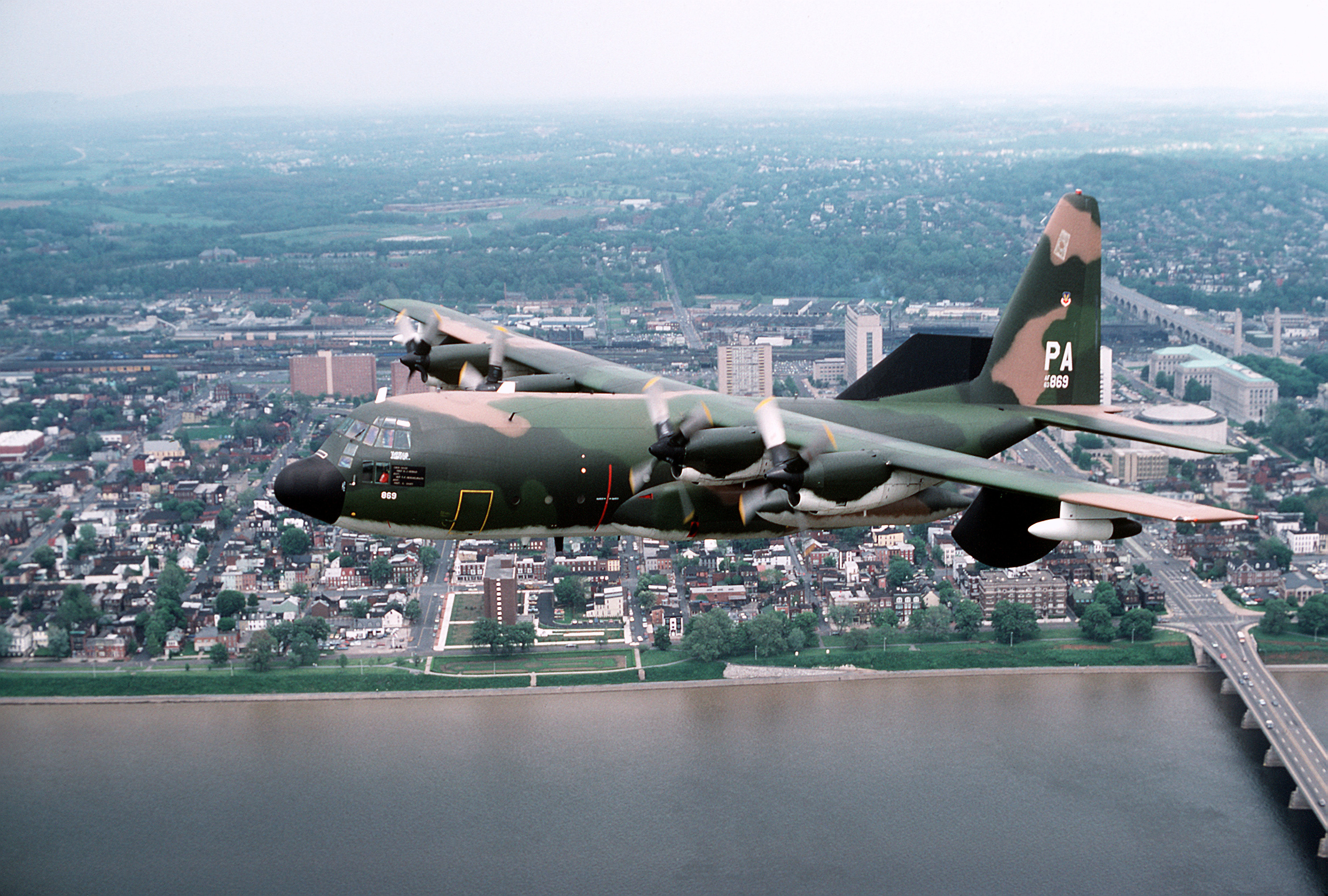 A U.S. Air Force Lockheed EC-130E Hercules (s/n 63-7869) assigned to the 193rd Special Operations Squadron, 193rd Special Operations Group, Pennsylvania Air National Guard, in flight over Harrisburg, Pennsylvania (USA). Built as an C-130E, 63-7869 was converted to an EC-130E in April 1979 and modified to an EC-130H Commando Solo in January 1993.